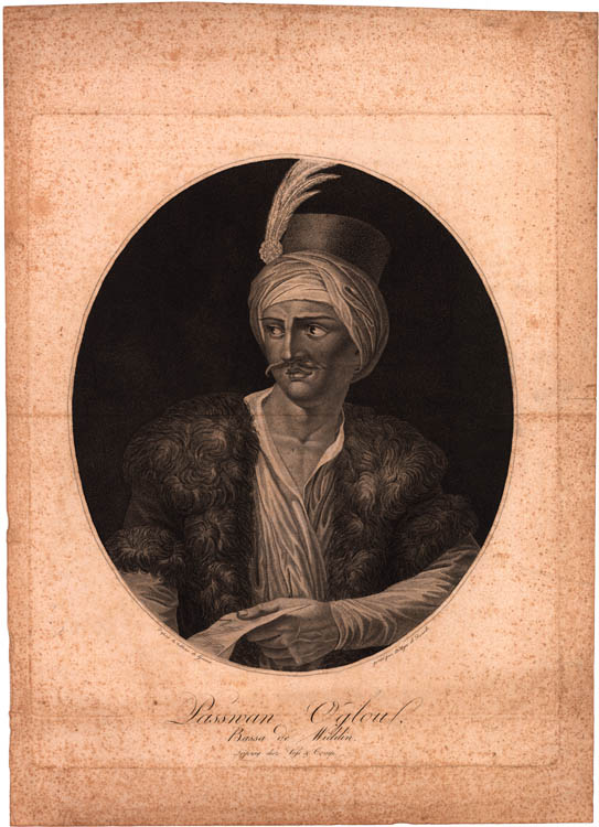 From Croatian State Archives: Pazvantoğlu, Osman (Pazvan Oglu) Inv. br. 642